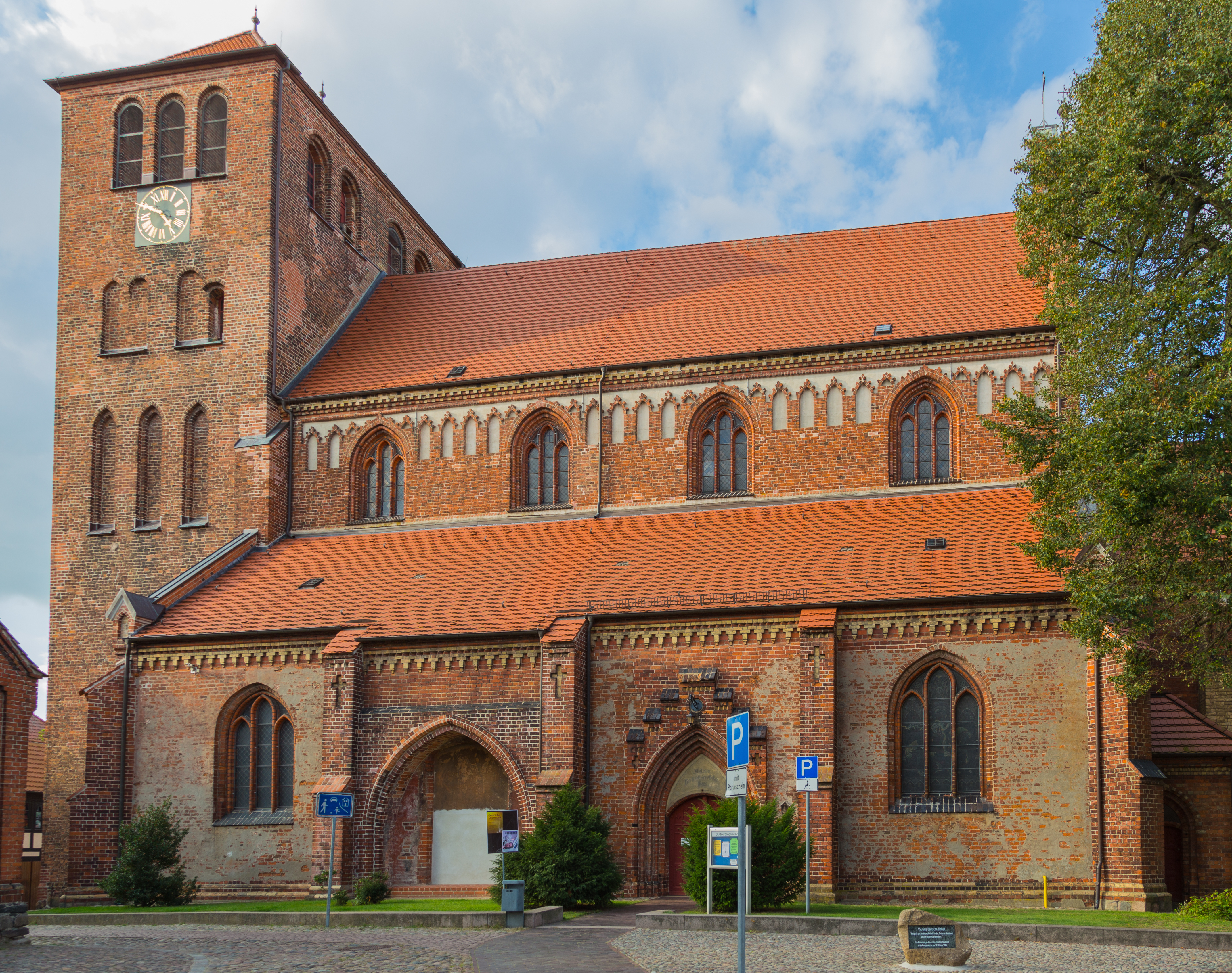 The Protestant St George's Church (Kirche St. Georgen) in Waren (Müritz), Landkreis Mecklenburgische Seenplatte, Mecklenburg-Vorpommern, Germany.